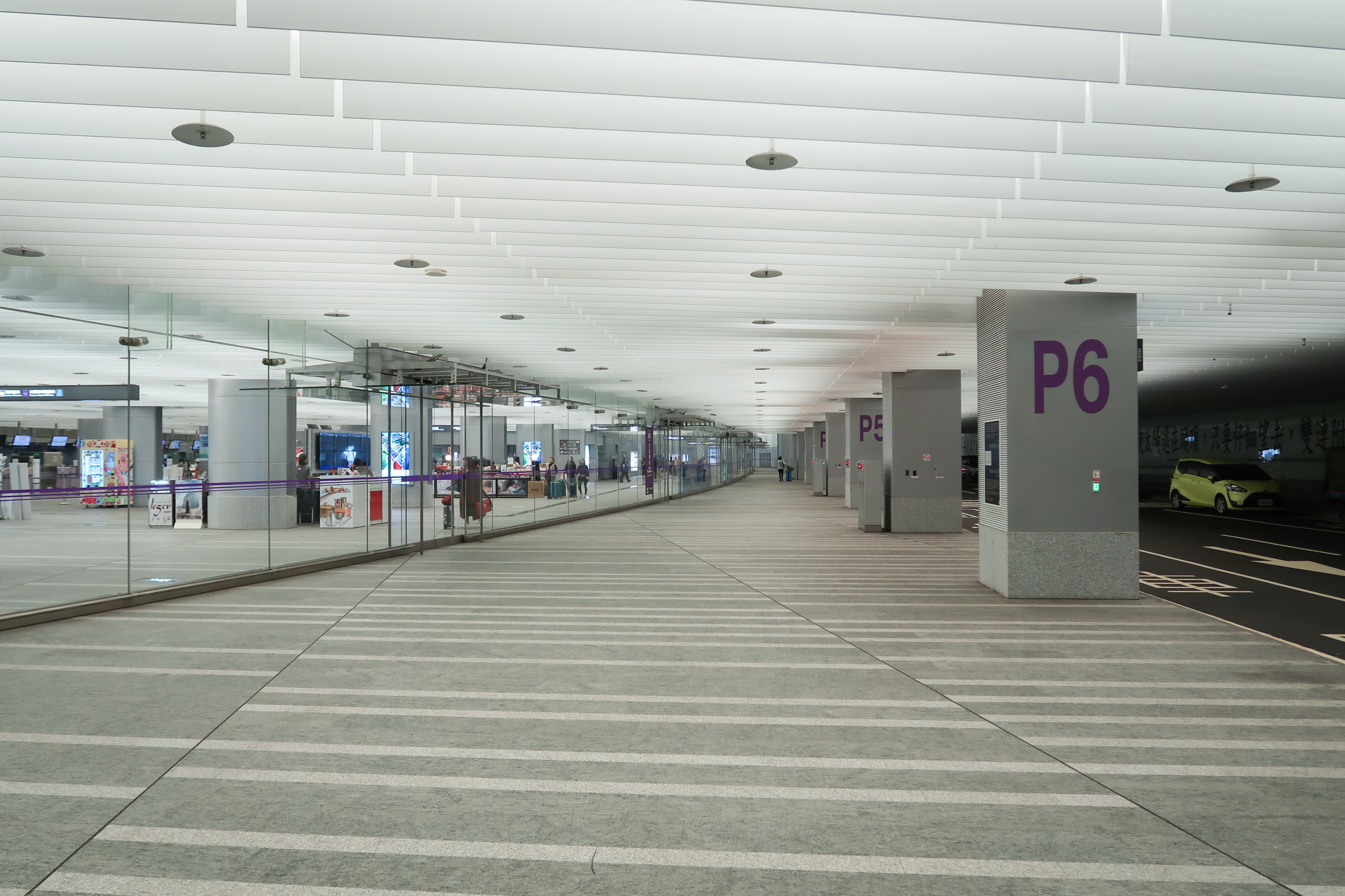 Taipei Main Station Taoyuan Metro Drop off area